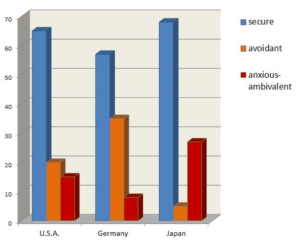 Prevalence of attachment types (Bowlby) in the U.S., in Germany, and in Japan. Data source: Van Ijzendoorn, M. H., & Kroonenberg, P. M. (1988). Cross-cultural patterns of attachment: A meta-analysis of the strange situation. Child Development, 147-156.